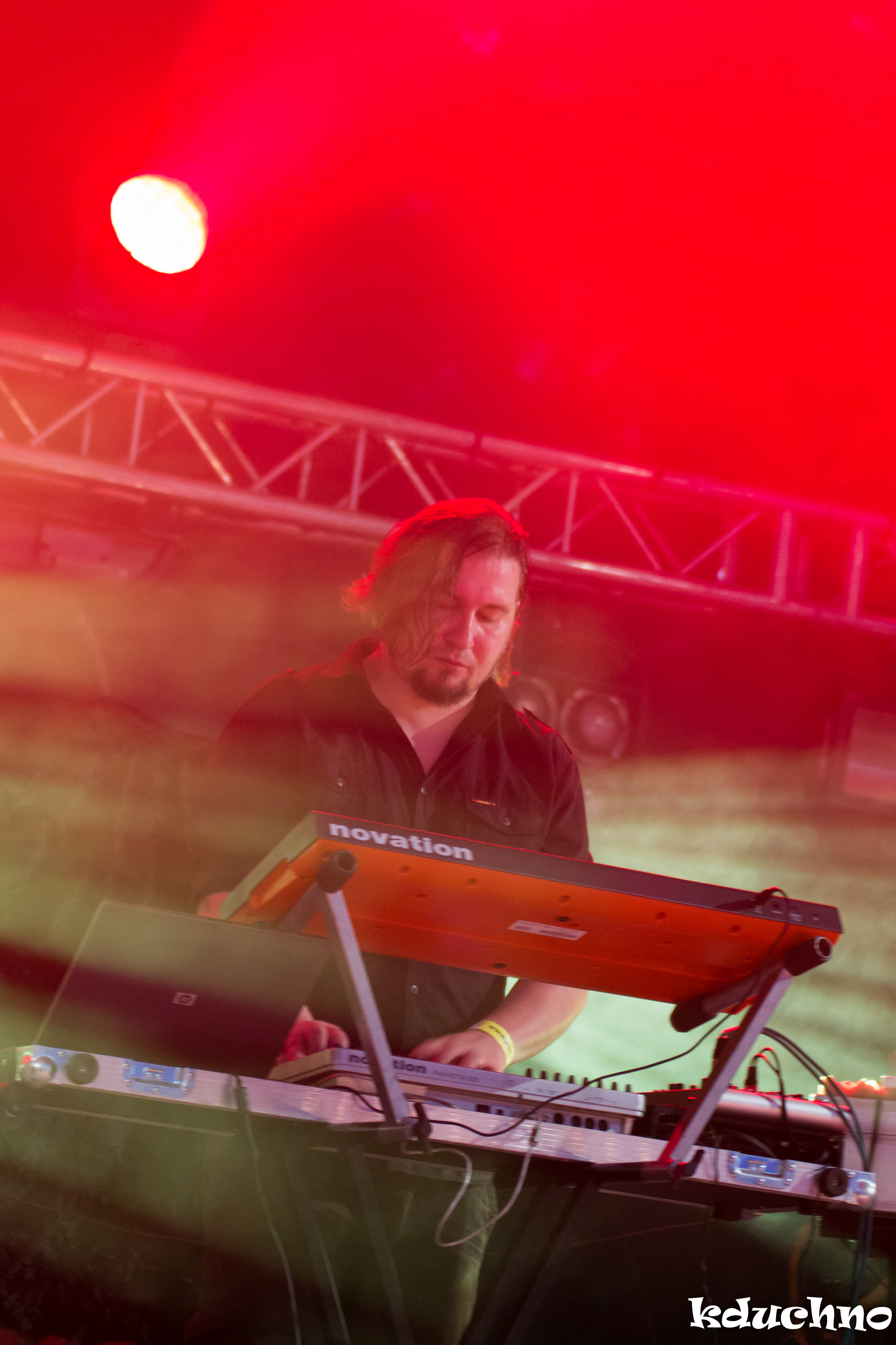 Hervy of Blindead